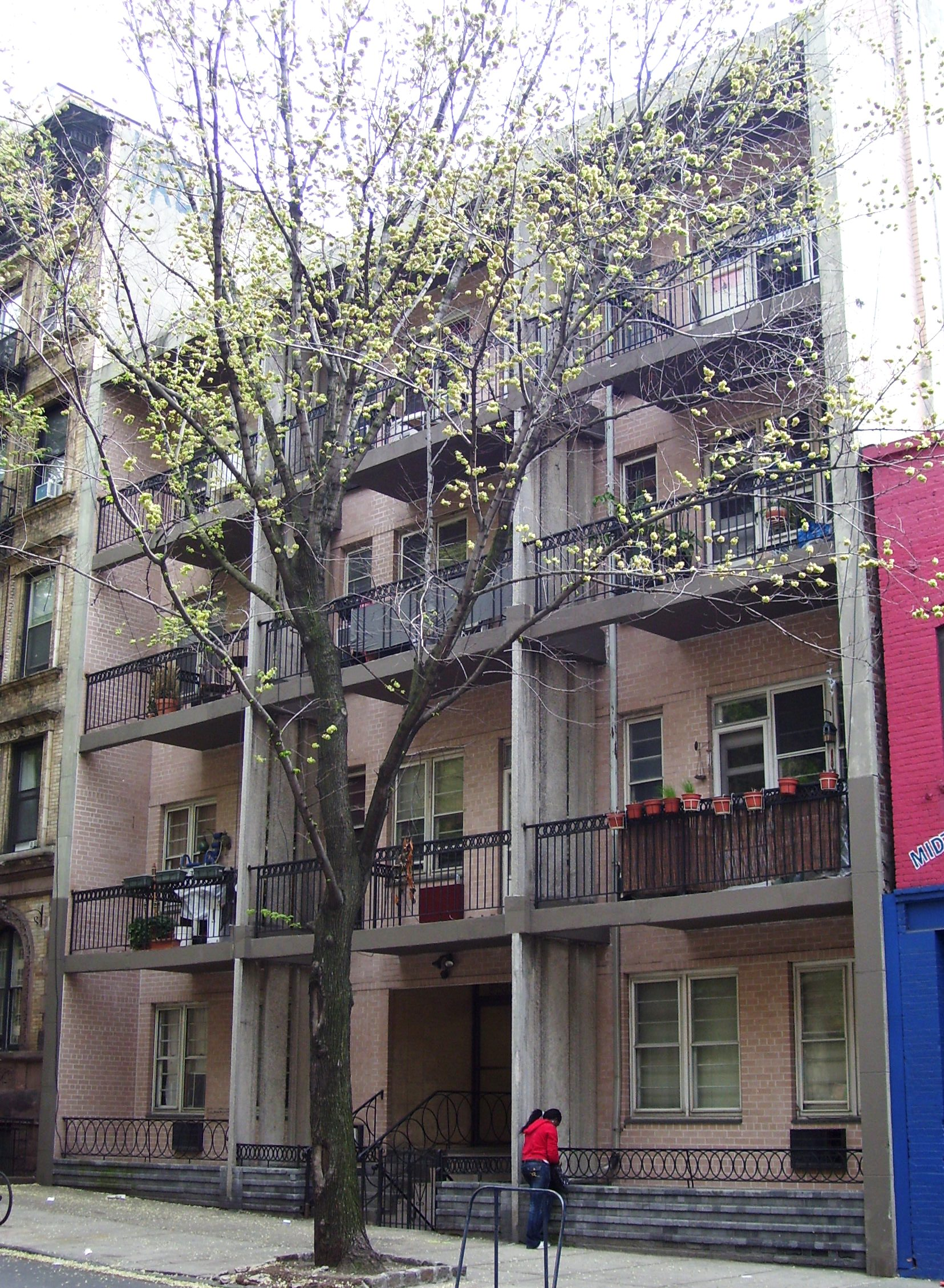 270 West 25th Street between Seventh and Eighth Avenue in the Chelsea neighborhood of Manhattan, New York City. (Source: NYC GIS map)